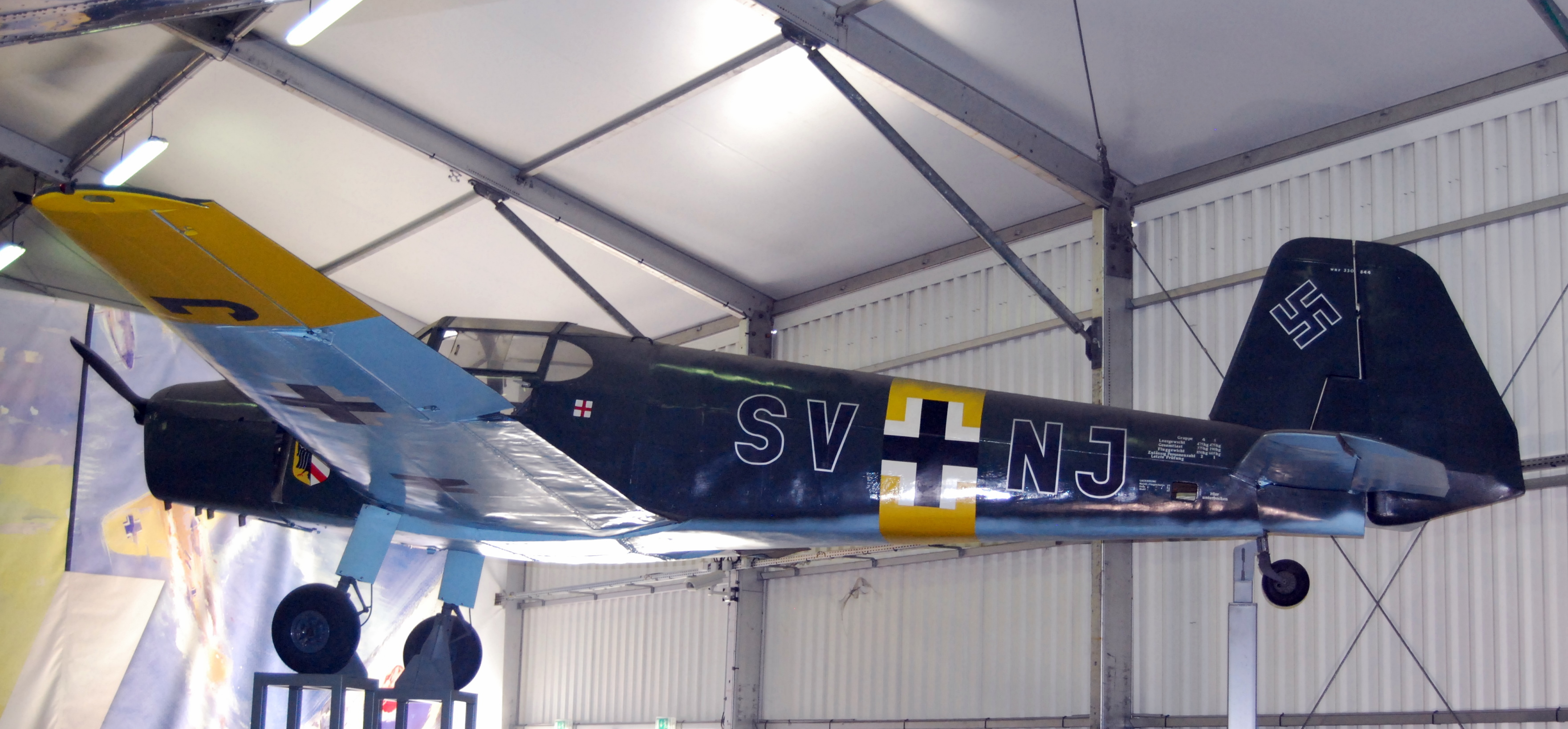 Photo ref; DSC1177-2012